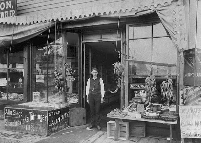 Charles Samuelson in front of Samuelson's Confectionery, Seven Corners, Minneapolis. Signs reading "Everyone speaks swedish", "Scandinavian Newspapers for sale" and "Steam laundry"